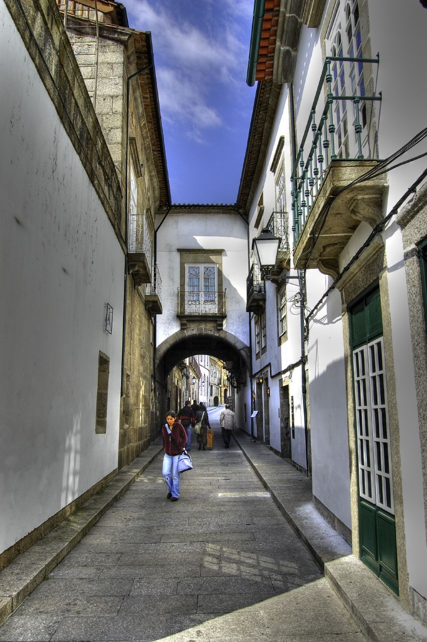 Santa Maria Street, Guimarães, Portugal.